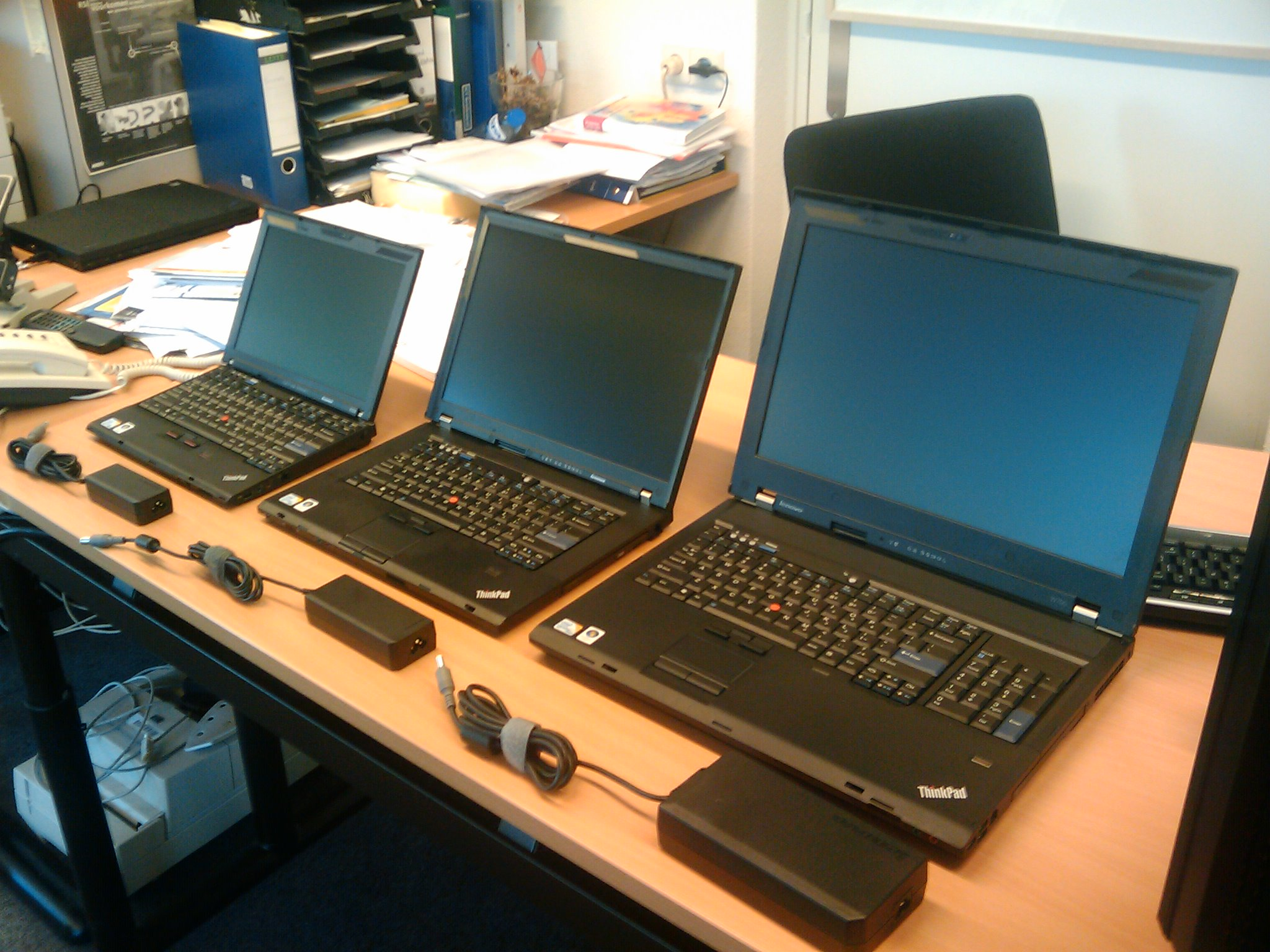 Our new laptops are in! We are switching from Toshiba to Lenovo Thinkpads!